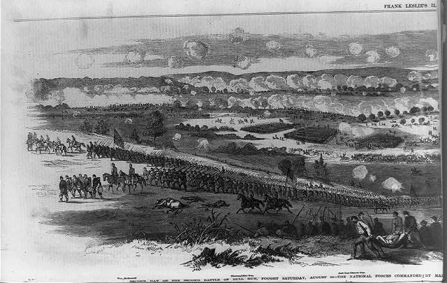 Second day of the second battle of Bull Run, fought Saturday, August 30--the National forces commanded by Major General Pope, and the rebel troops by General Lee, Jackson and Longstreet / from a sketch by our special artist, Mr. Edwin Forbes.